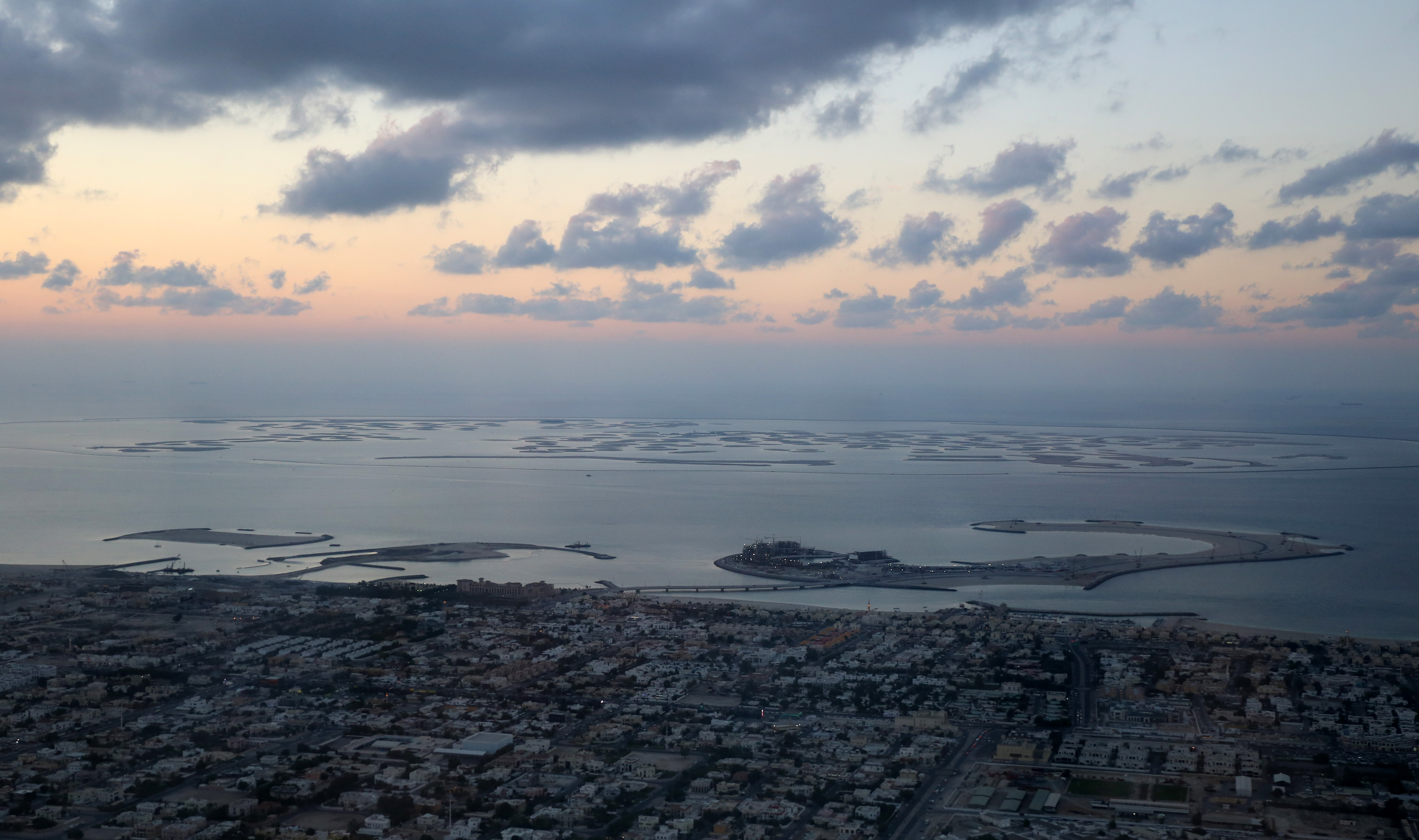 View from Burj Khalifa to "The World", a man-made archipelago of 300 islands in the shape of a world map currently being built off the coast of Dubai.